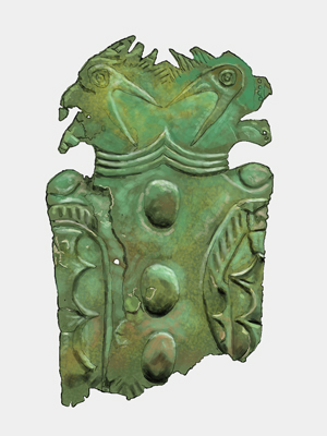 Malden Plate B from the Wulfing cache, the only two-headed avian of the group. It has two heads joined at the neck and looking in opposite directions, one to the right and the other to the left. It measures 25.1 centimetres (9.9 in) in length by 16.1 centimetres (6.3 in) in width and weighs 112.3 grams (3.96 oz). Plate B is the only one of the Wulfing cache to have three centrally located ventral spots and two semi-circular spots on either side of the abdomen.[1] Among Mississippian copper plates this double-headed avian most closely resembles the composition of the 10.5 inches (27 cm) in length “fighting birds” plate found by Warren K. Moorehead in a burial in Mound C at Etowah.[2][3]